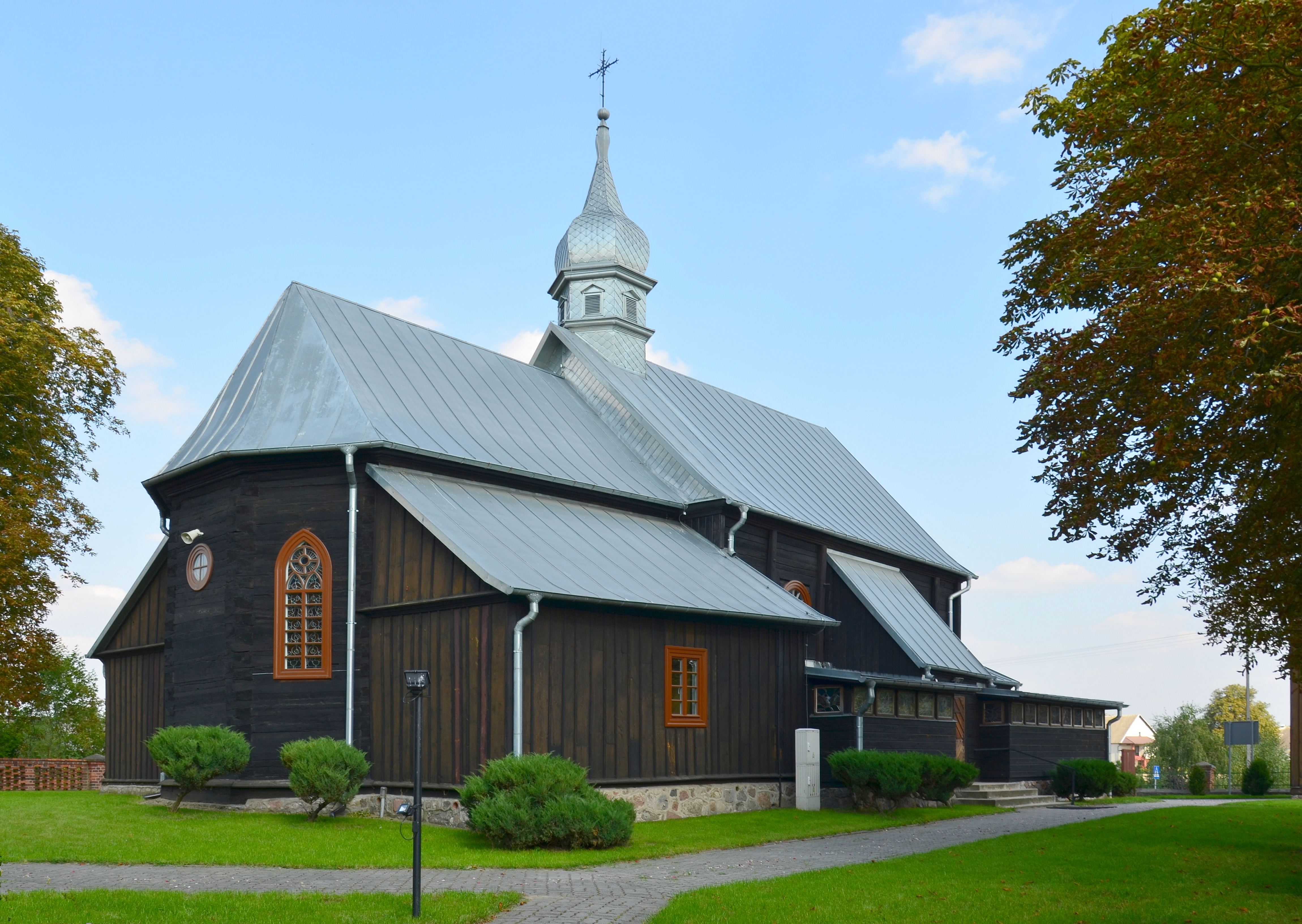 Chrostkowo, saint Barbara church